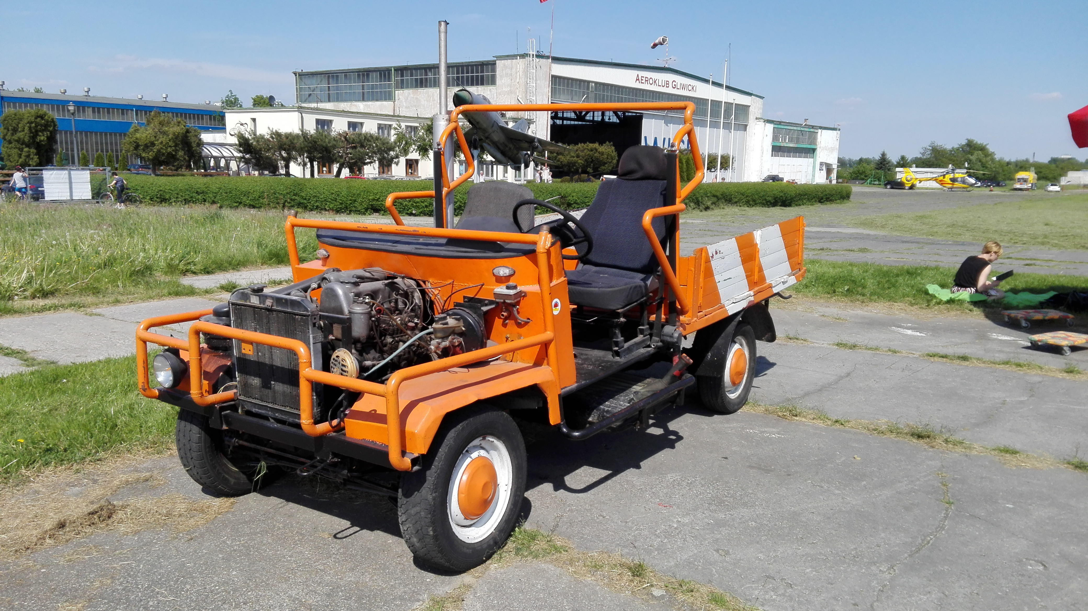 Eurocopter EC135P2 Air Ambulance from Poland